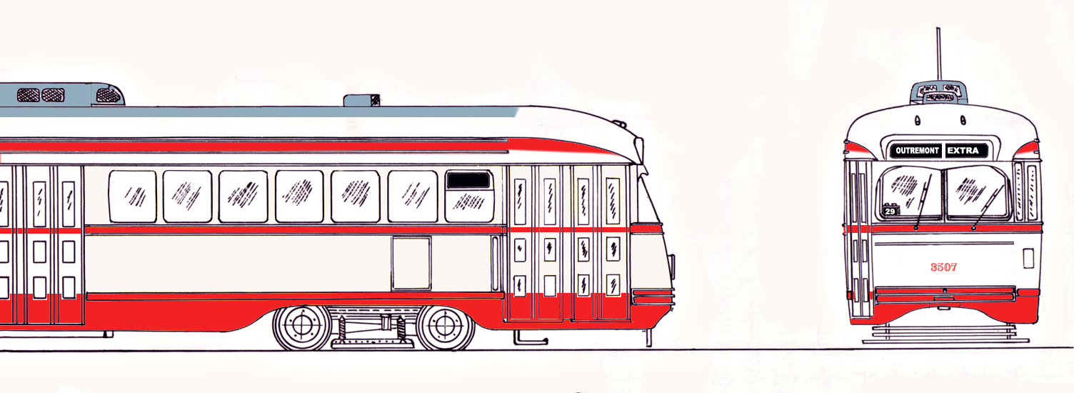 «Montreal Tramsways Co. : Color scheme» (original caption)